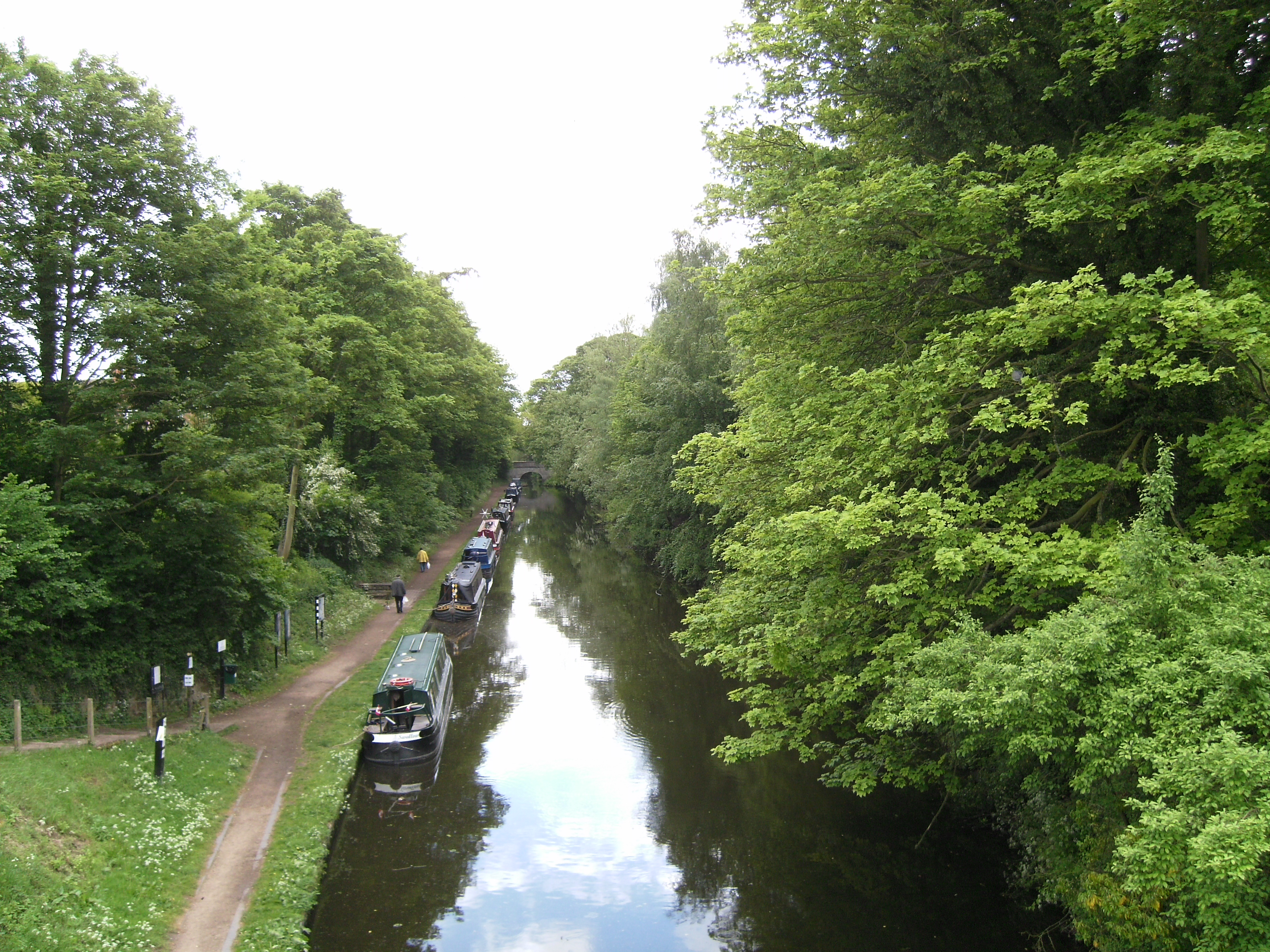 Shropshire Union Canal viewed south from Brewood bridge.